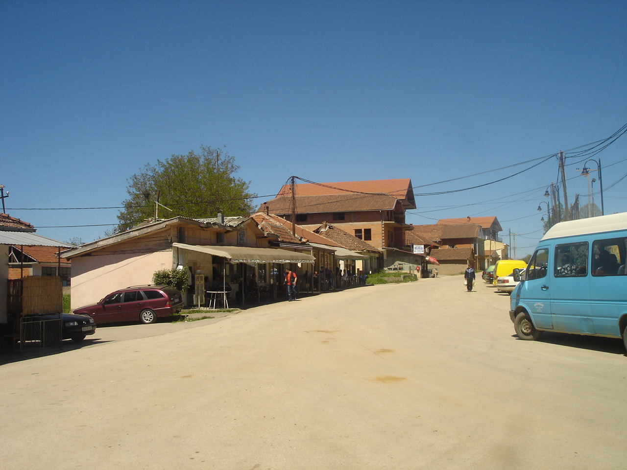 Sqare in Centar Župa, Macedonia